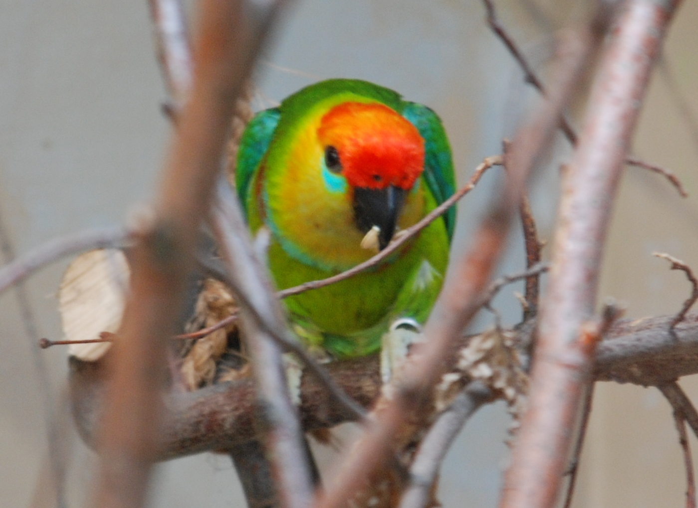 An adult Large Fig Parrot at Prague Zoo, Czech Republic.